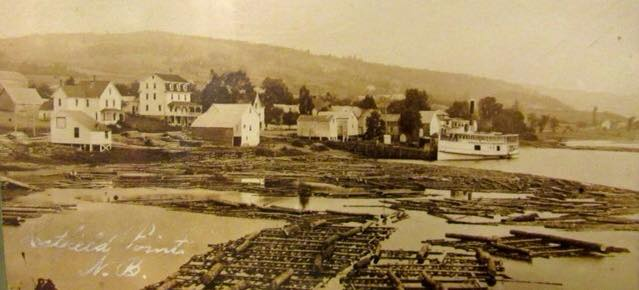 A view of Hatfield Point during logging and milling operations, c. 1915